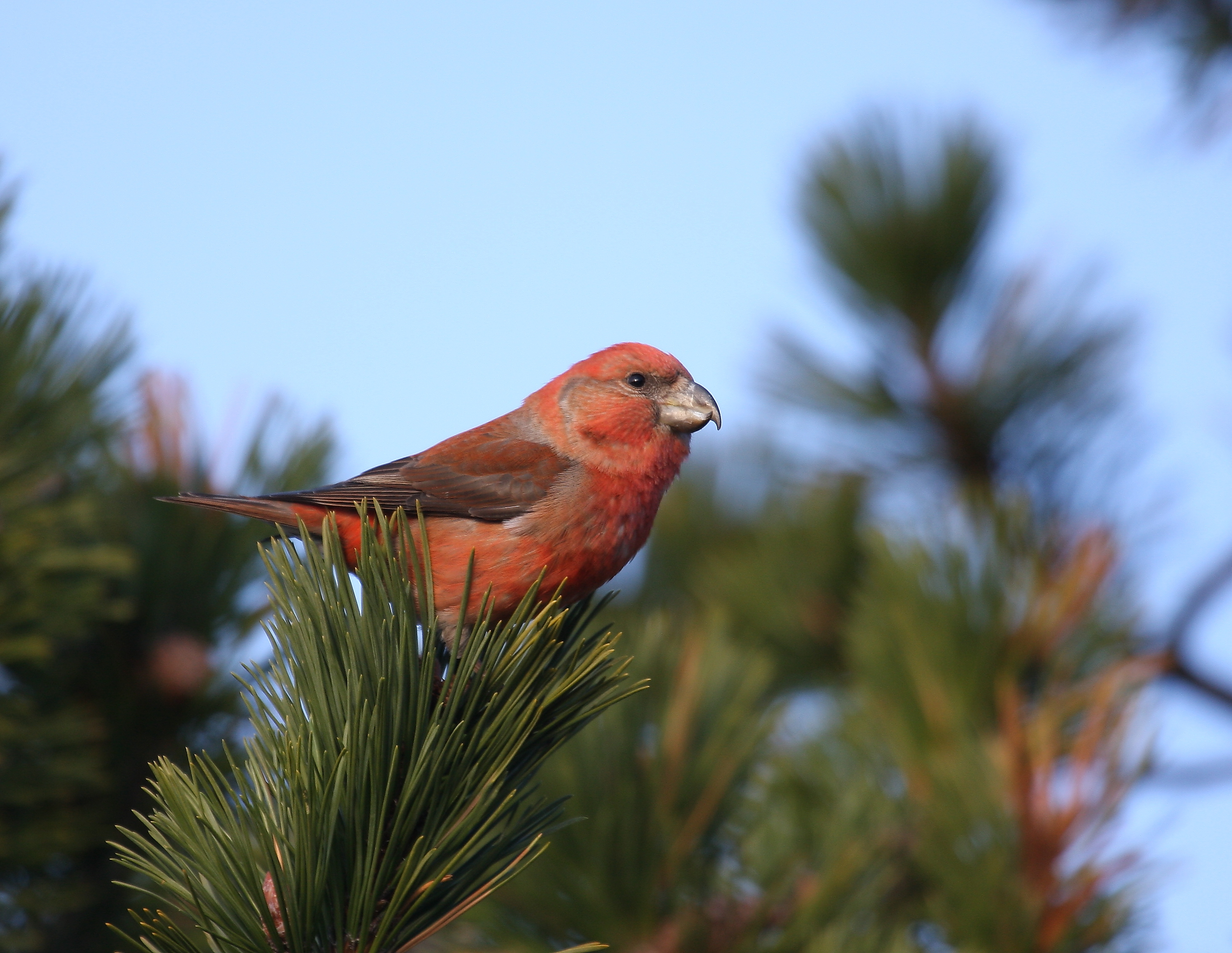 Parrot Crossbill, adult male. Lista Norway